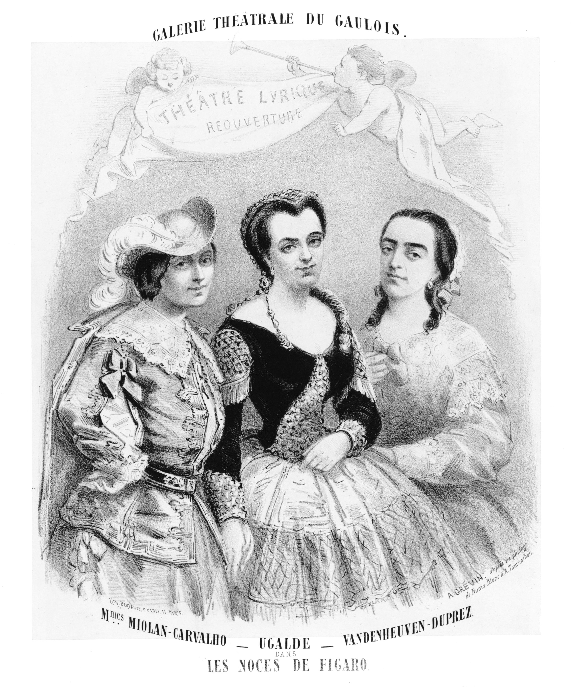 Engraving after a photograph of the three principal sopranos in Les noces de Figaro, a French adaptation by Jules Barbier and Michel Carré of Mozart's opera Le nozze di Figaro, as performed at the Théâtre Lyrique in Paris beginning on 8 May 1858. The singers are, from left to right, Caroline Carvalho as Chérubin, Delphine Ugalde as Suzanne, and Caroline Duprez-Vandenheuvel as La Comtesse.